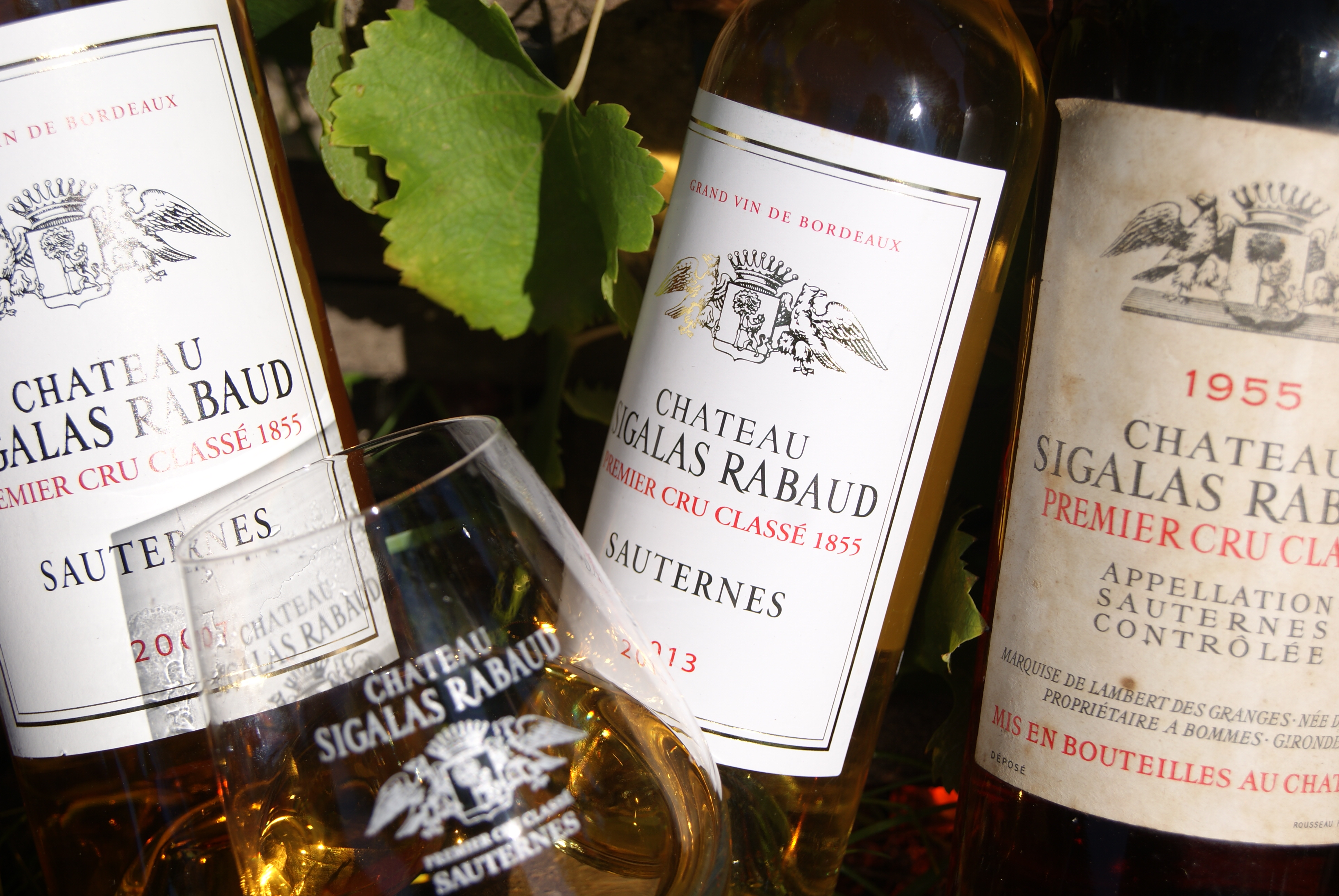 bouteilles de Sigalas Rabaud